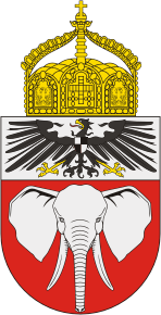 Proposal coat of arms of the Germany colony of Cameroon